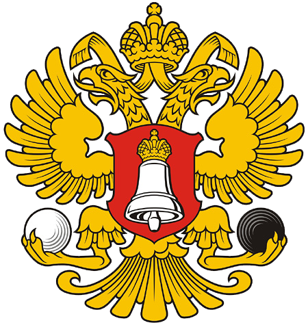 COA of Central Election Commission of Russia